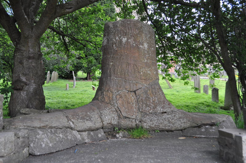 Stanhope Tree, Data from Geograph: Description: A preserved Sigillaria tree from the mid Carboniferous coal swamps. Instead of joining its coal friends it rotted away but was covered in sand which left a cast. more ICBM: 54.747846924003, -2.0069590035685 Location: (about 1 km from) near to Stanhope, County Durham, Great Britain.